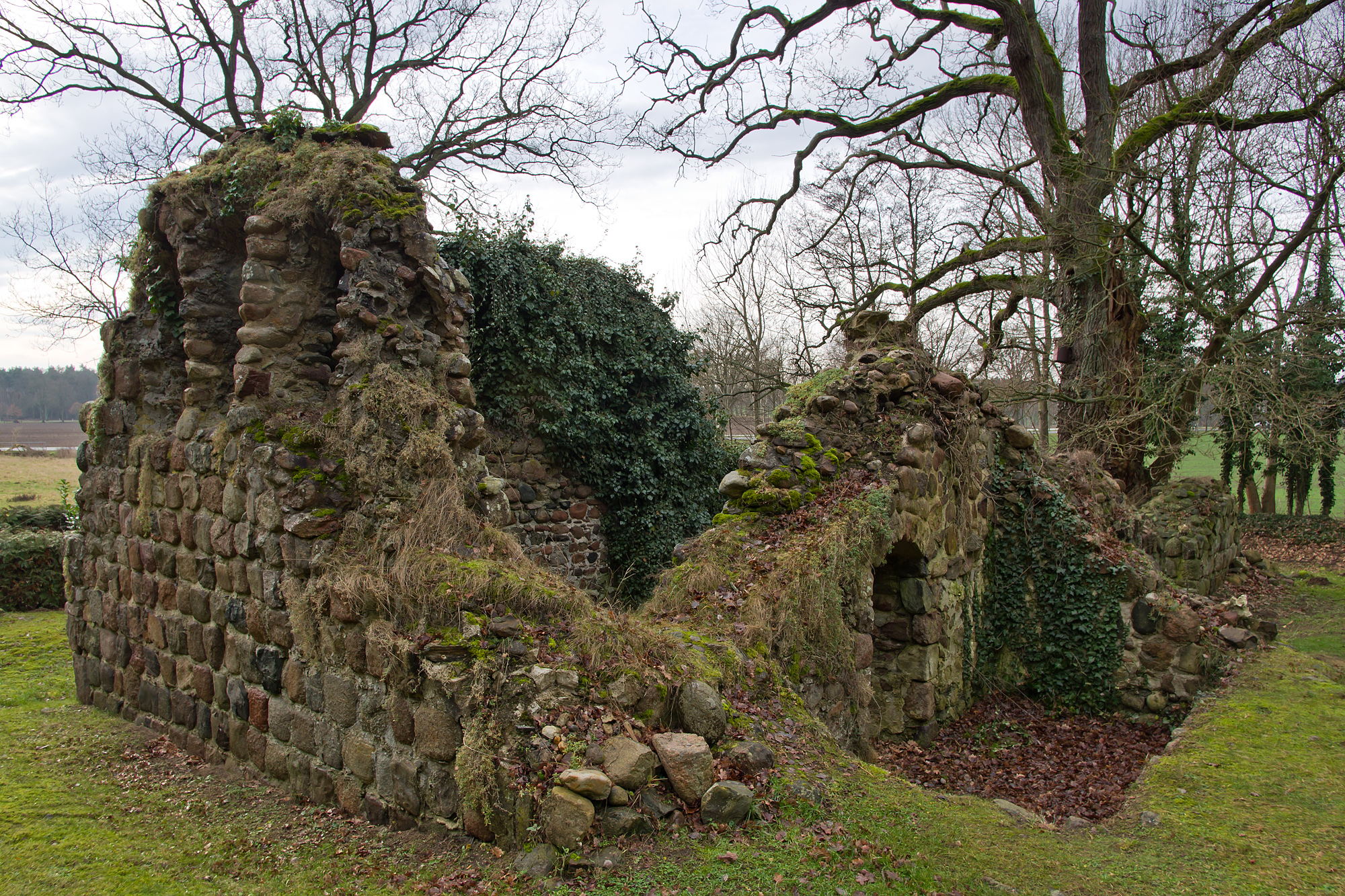 Ruin of a chapel near the small village Spithal (district Lüchow-Dannenberg, northern Germany).